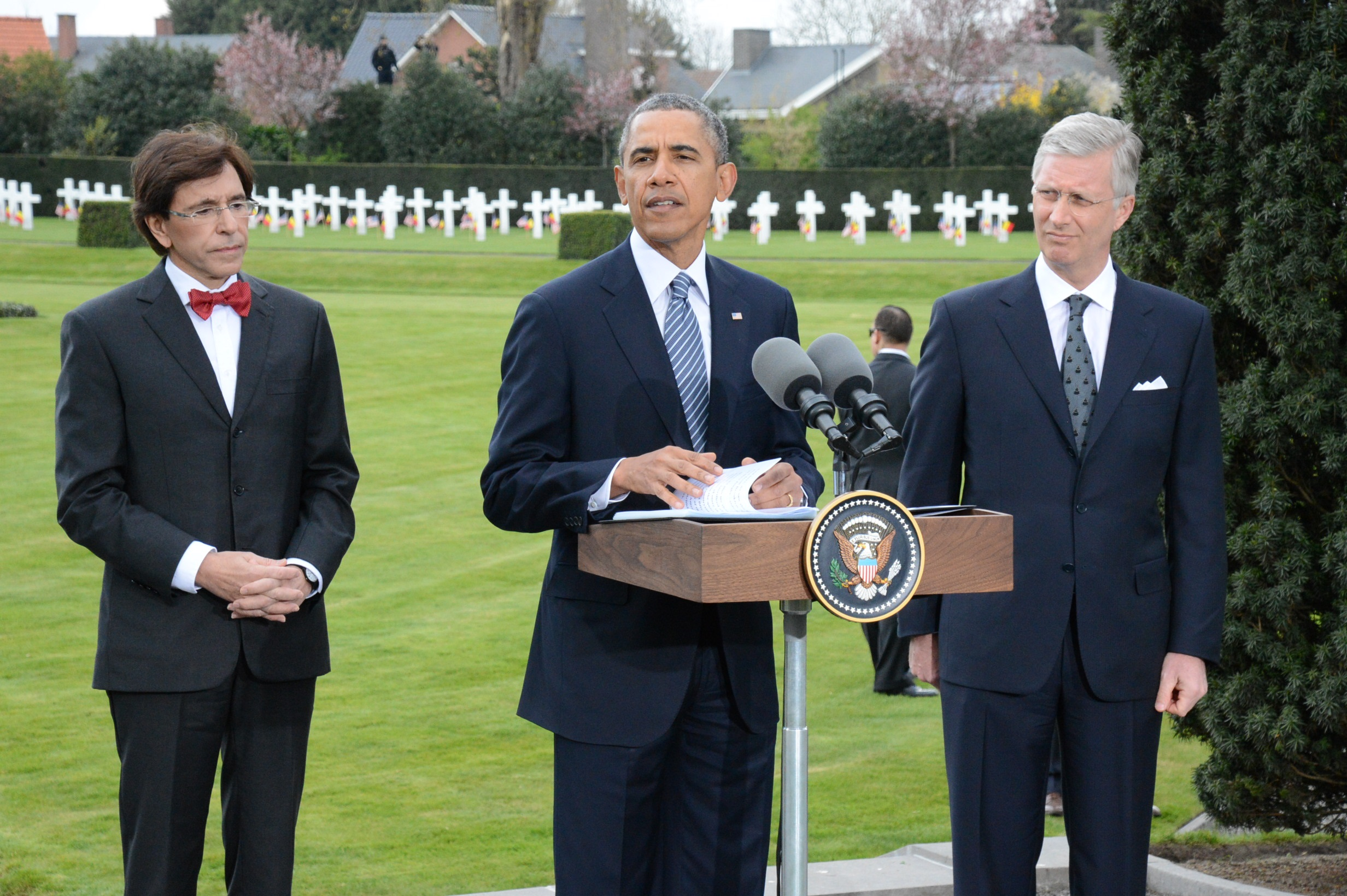 President Obama, Minister Elio Di Rupo and King Philippe at Flanders Field American Cemetery in Belgium